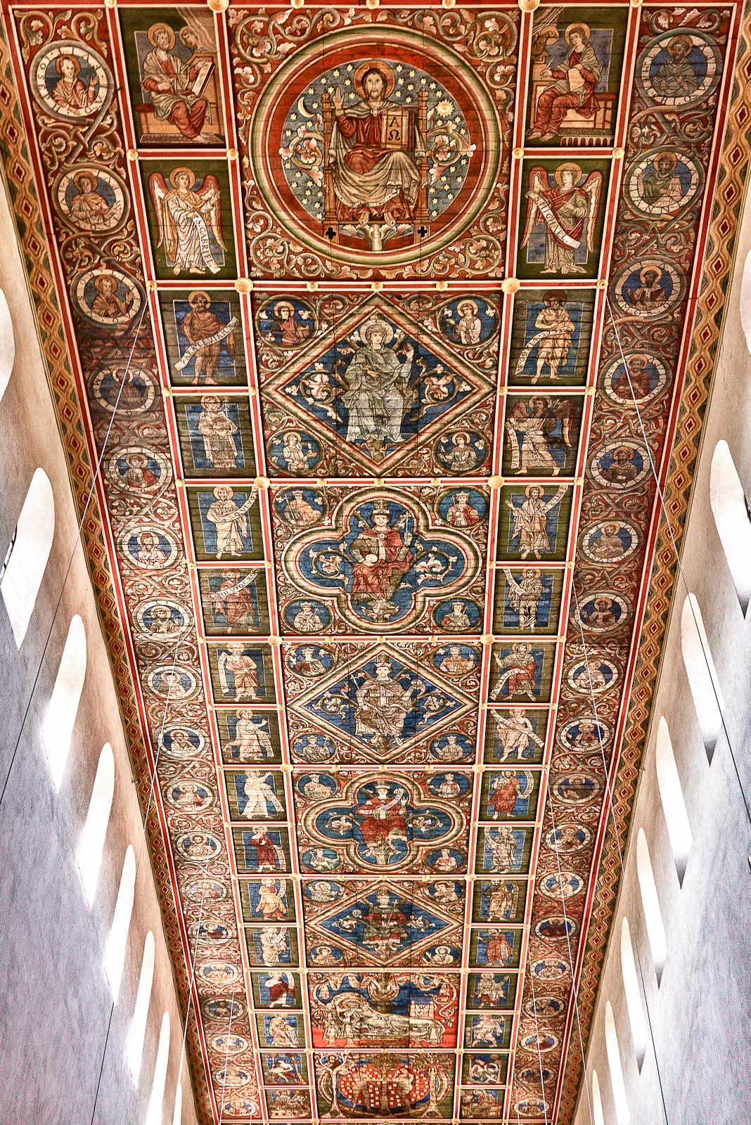 Wooden Ceiling of the Michaelis Church of Hildesheim